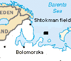 The map was originally from the CIA, i have cropped the map and added the location of the field Philbentley 23:23, 9 October 2006 (UTC)